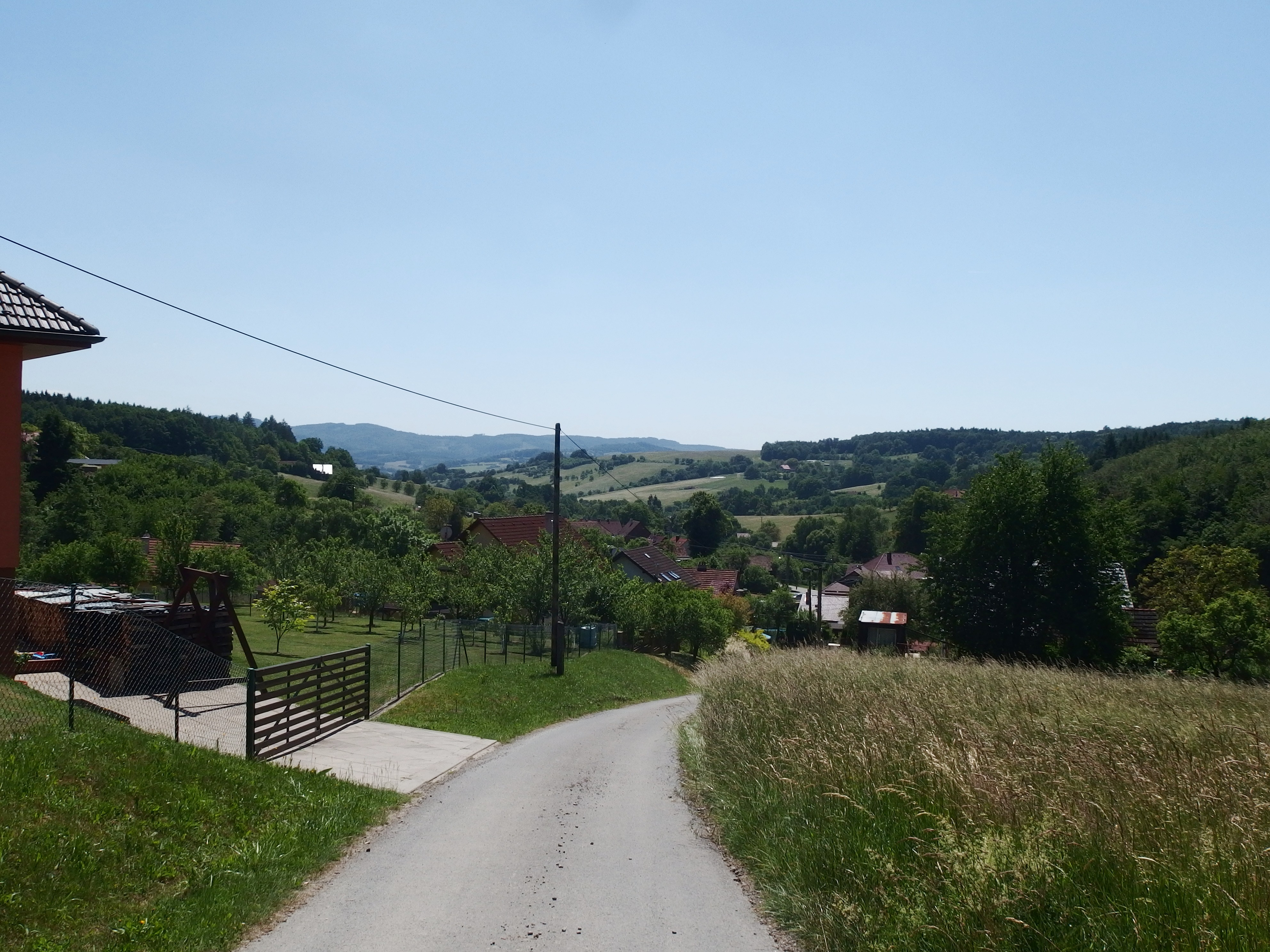 Vizovice, Zlín District, Czech Republic, part Chrastěšov.